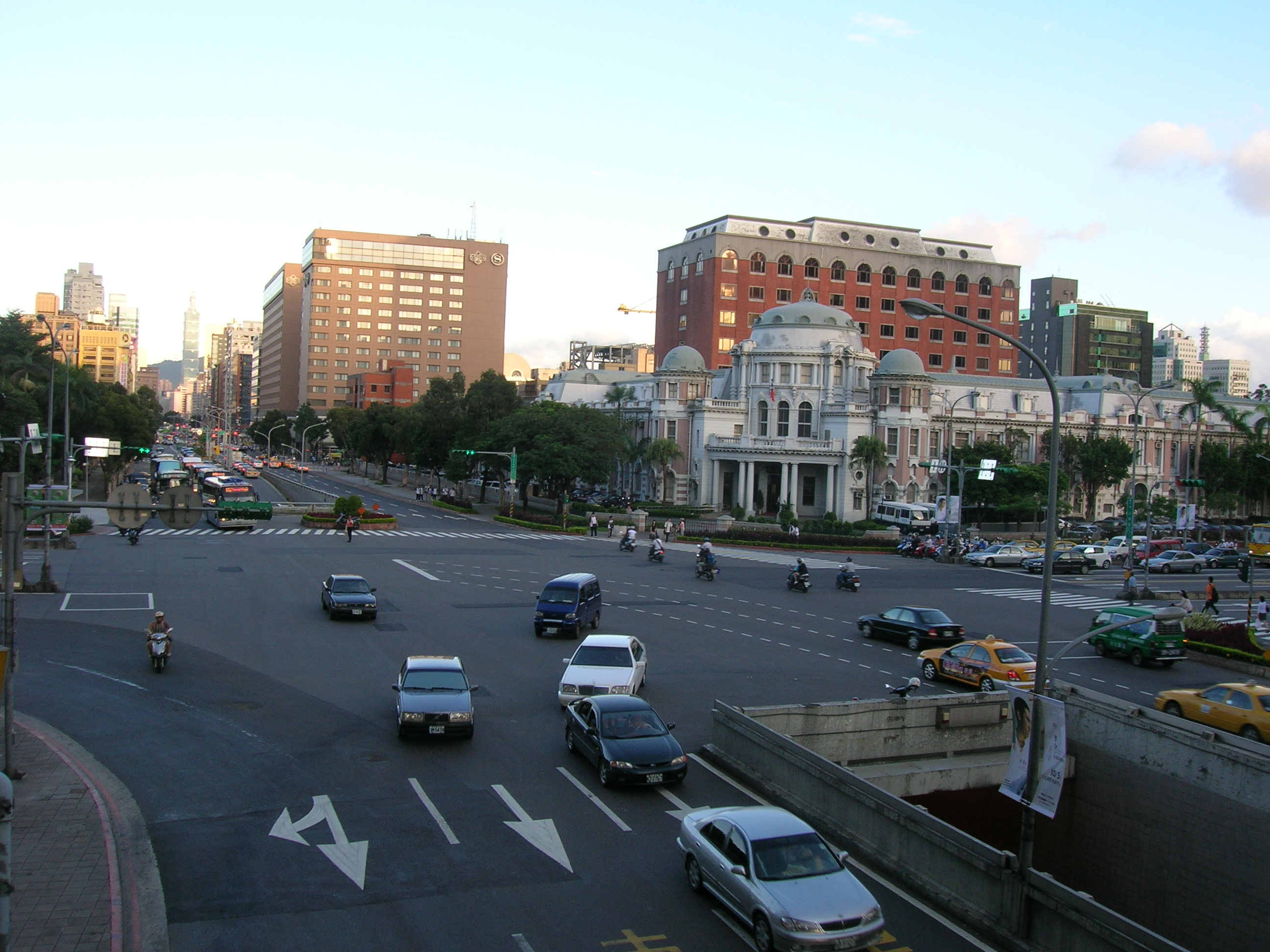 Zhongxiao Road and Zhongshan Road intersection, Zhongzheng District, Taipei City.